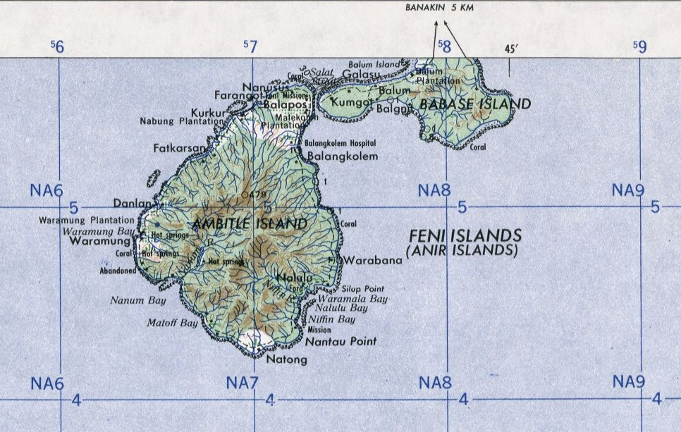 map sheet 1:250,000 SB56-3 (Papua New Guinea) showing southern New Ireland, most of Feni Islands (Ambitle, Babase), inset of Green Islands (with Nissan Atoll)